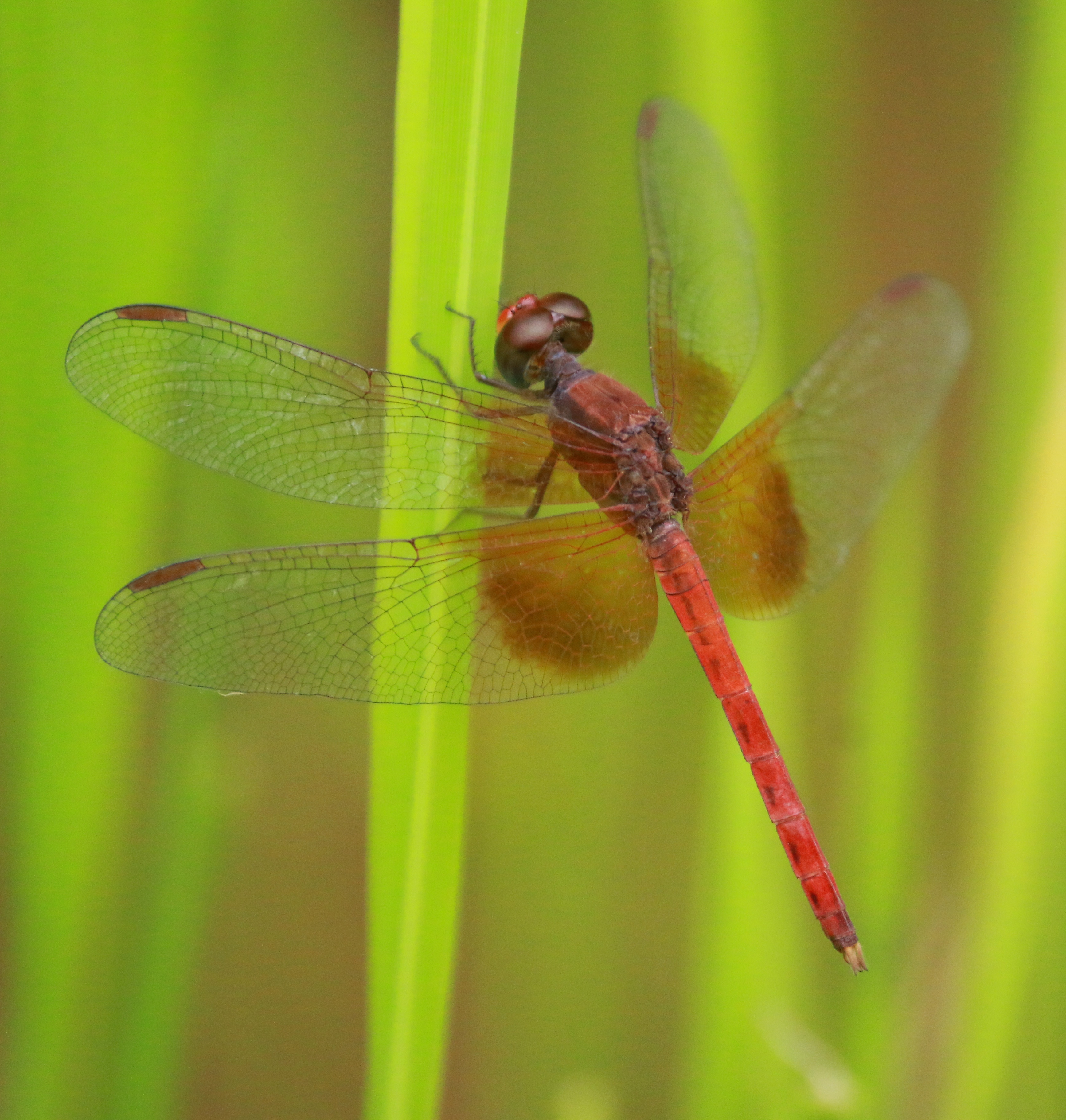 Neurothemis intermedia,Paddy Field Parasol